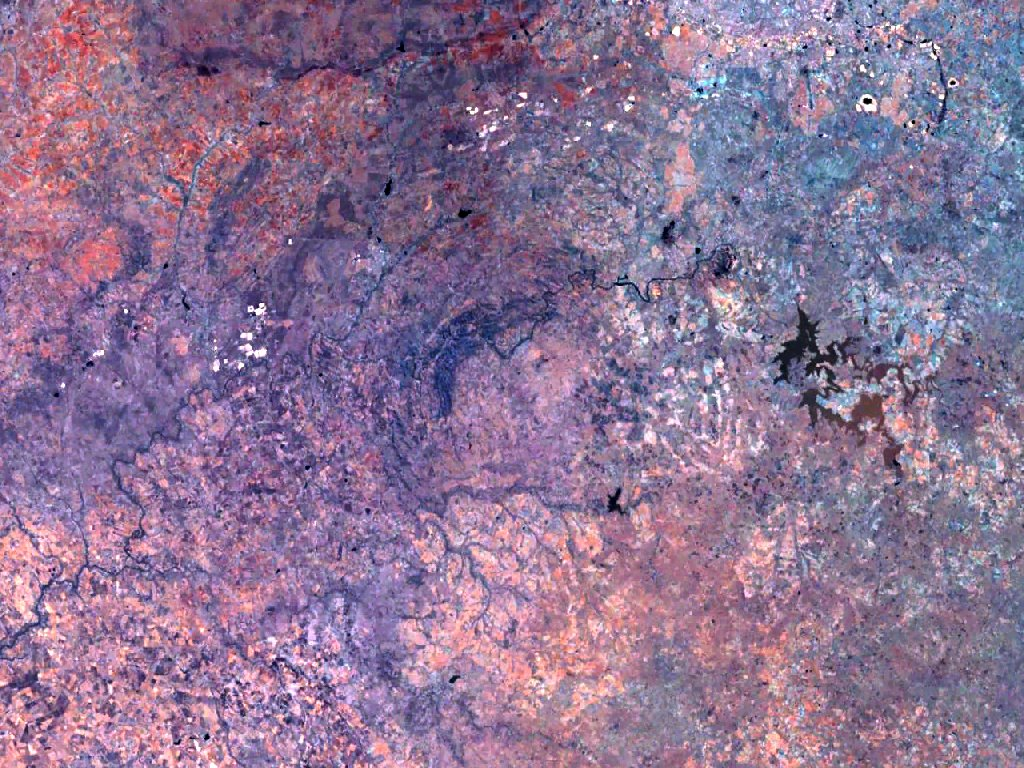 Vredefort crater has a diameter of 300 km, and its circular structure nearly fills the complete image. The Vredefort dome, a conspicuous geologic feature about 50 km in diameter, stands out at the center.